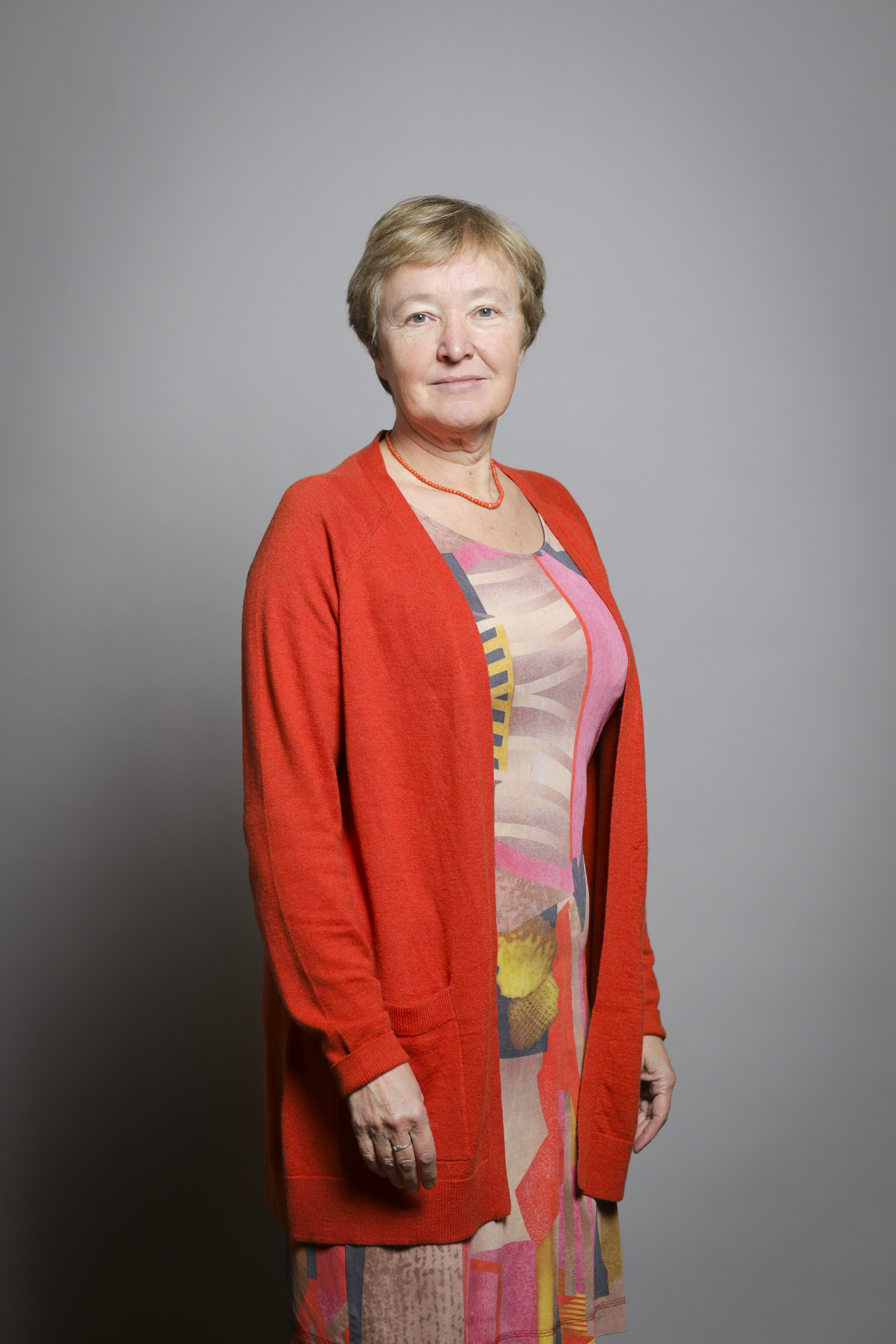 Official portrait of Baroness Valentine Full sized portrait of Baroness Valentine